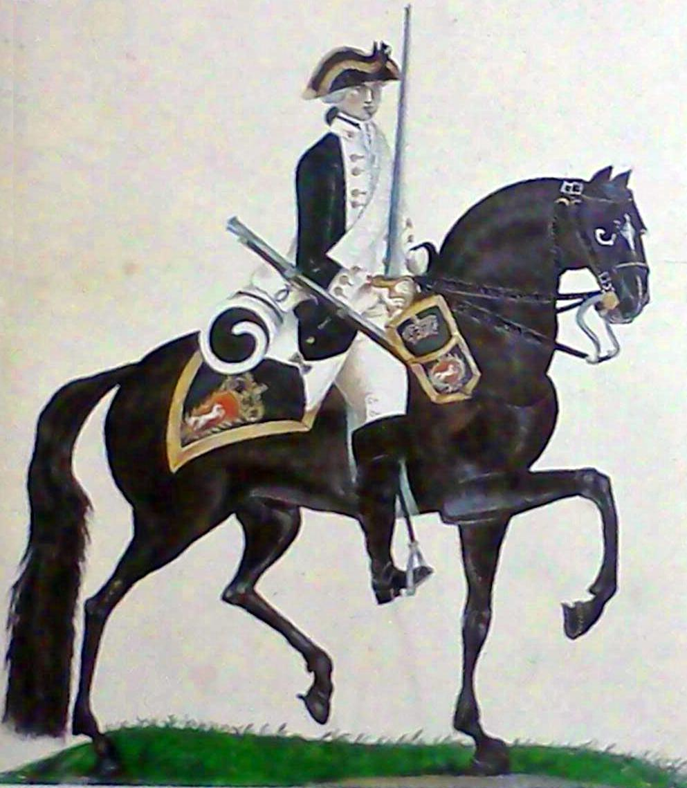 Uniform of 2nd hanoverian Cav Rgt, Celle, 1791